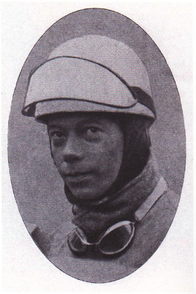 Frédéric Charles Joseph François Charlier (1890-1929)